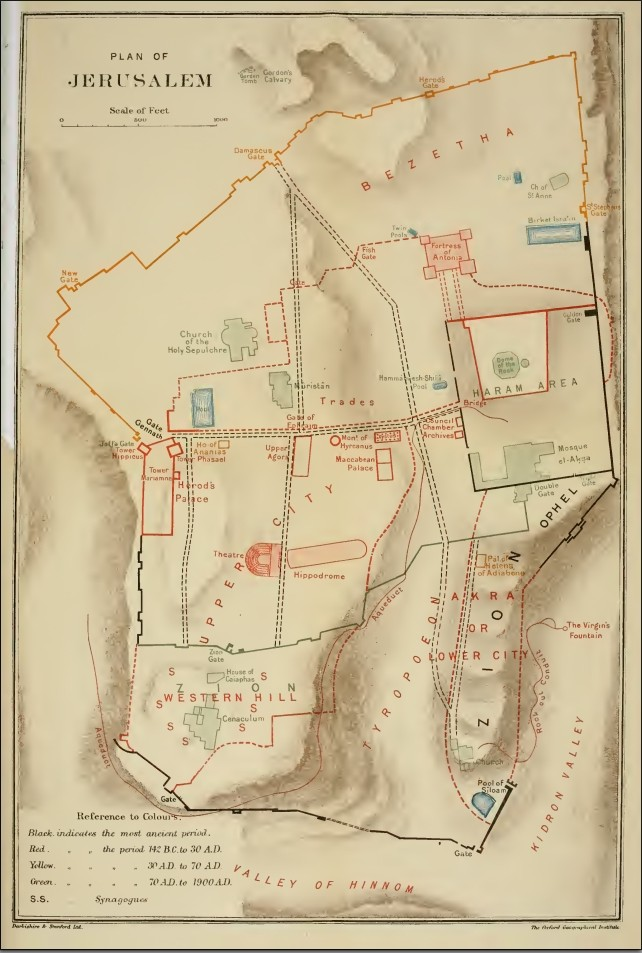 map of Jerusalem with reference to historical sites